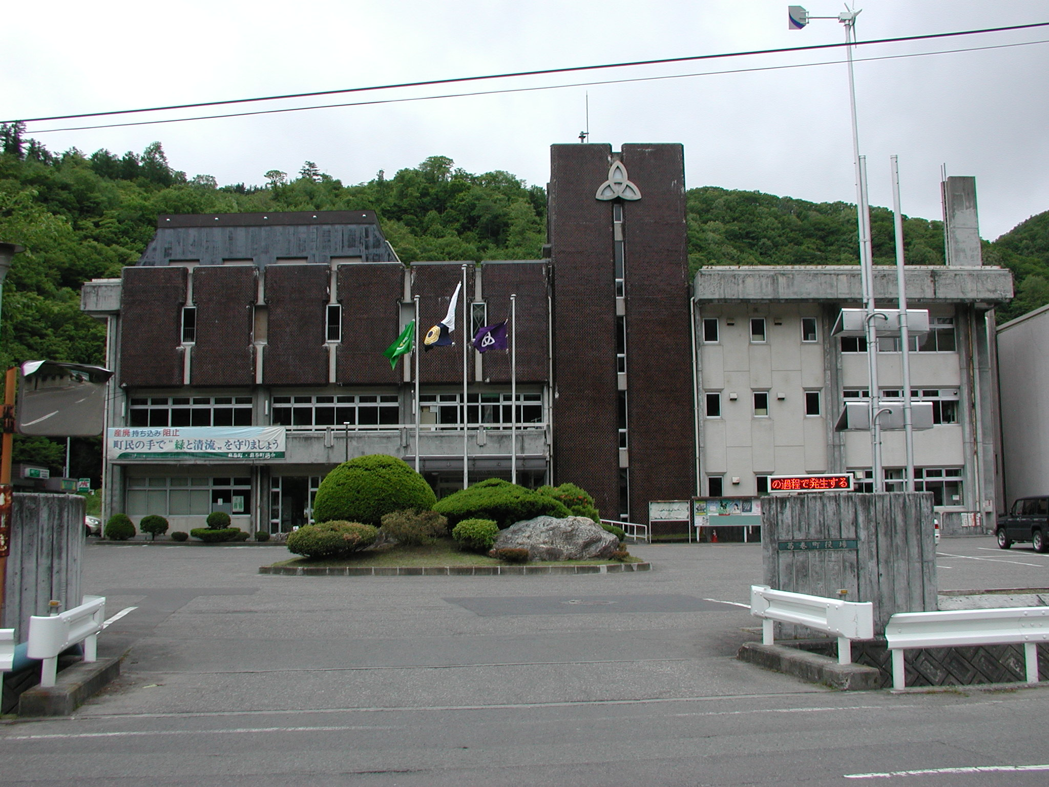 Kuzumaki Town Office Iwate Japan